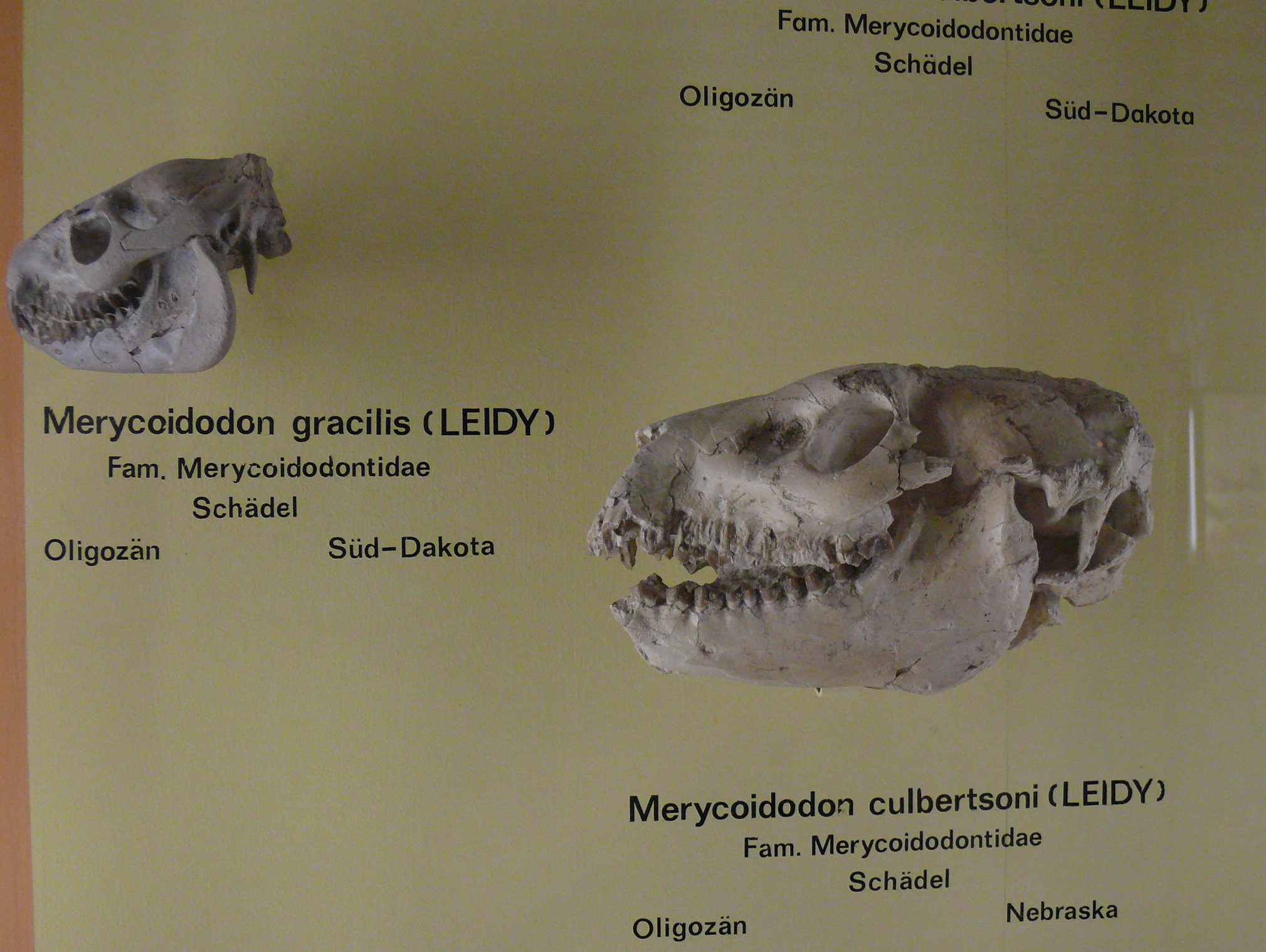 Merycoidodon